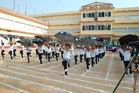 jhansi